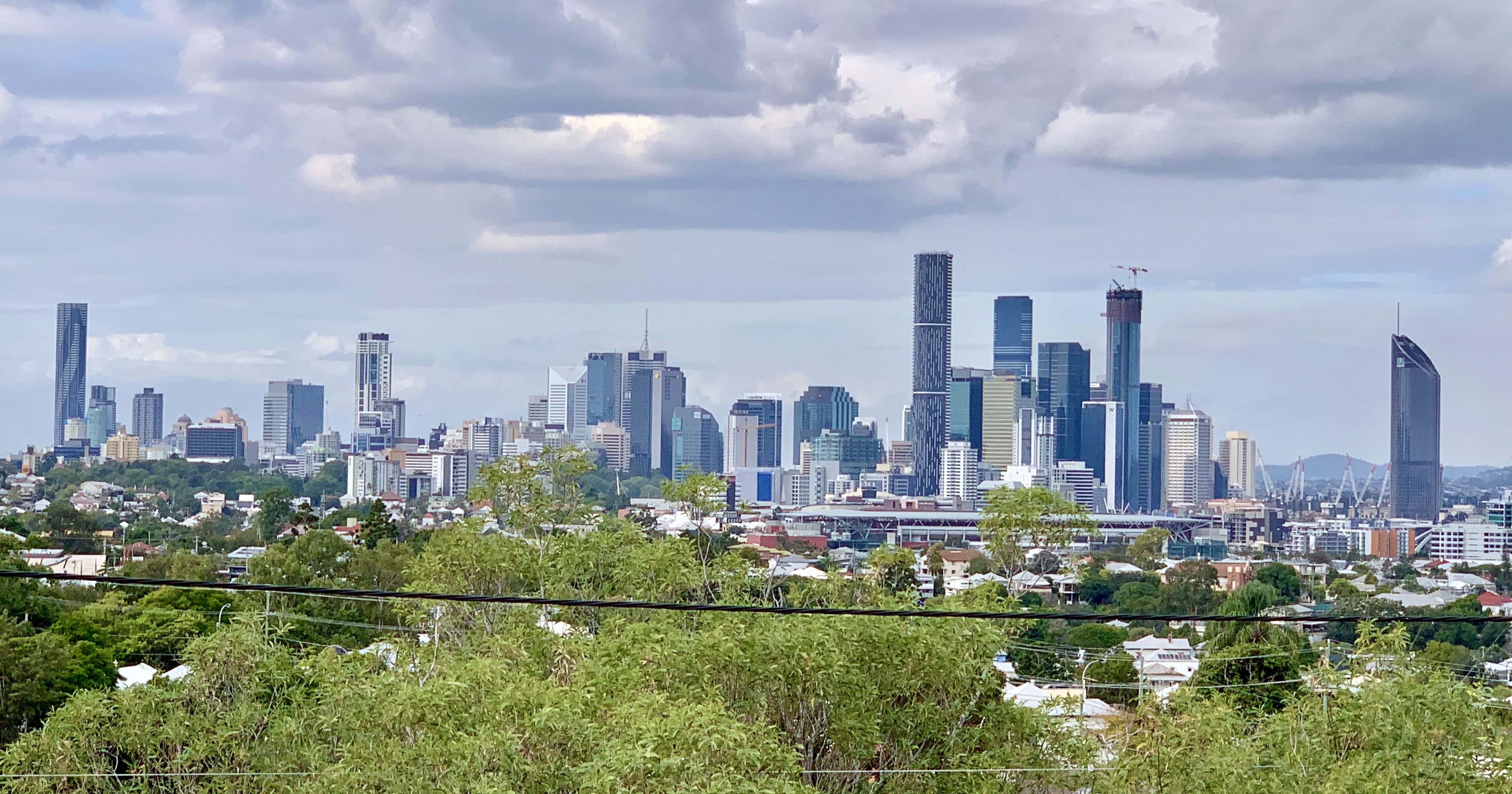 Skyline of Brisbane CBD seen from Paddington, Queensland in May 2020